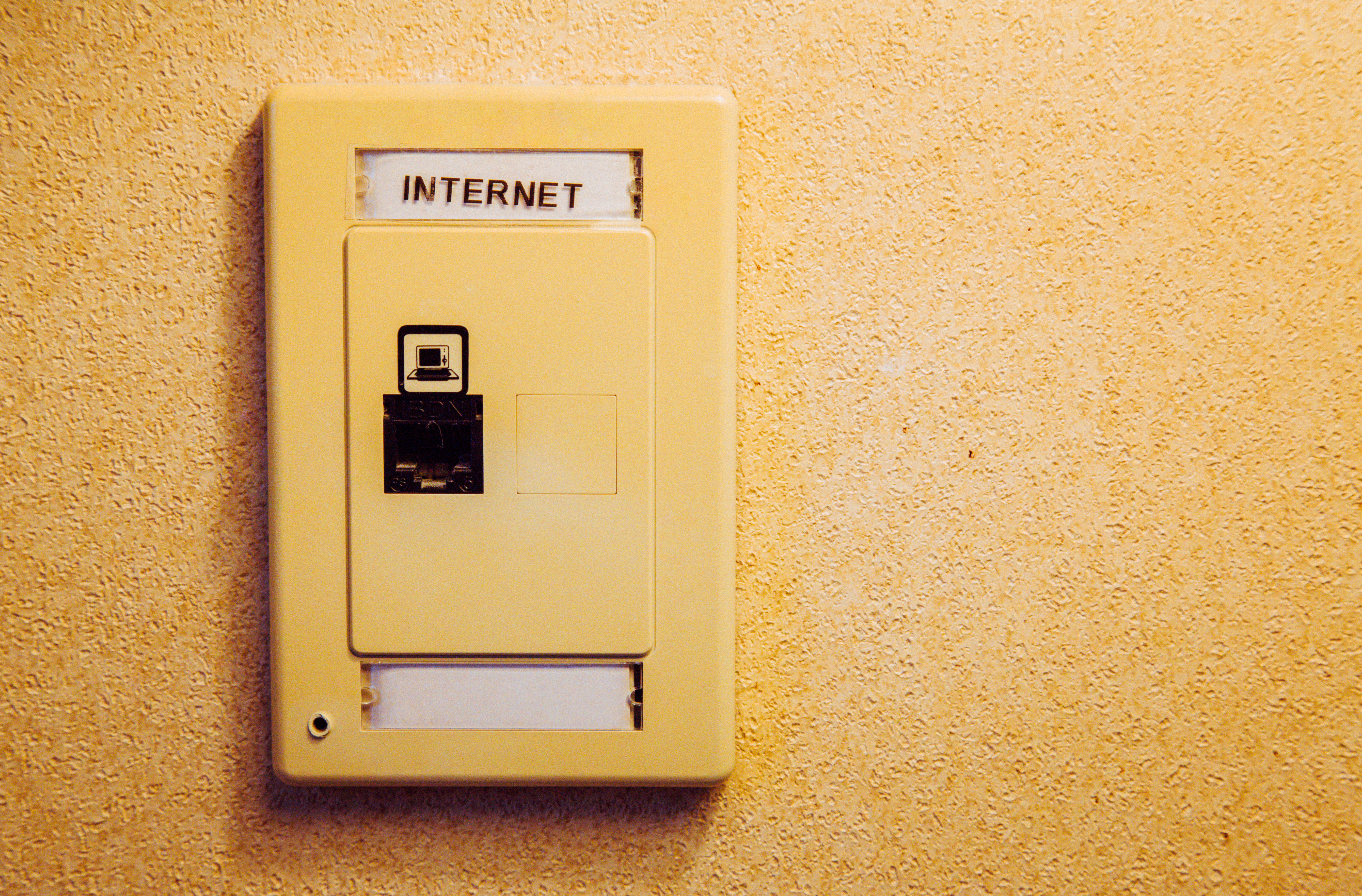 Internet Access